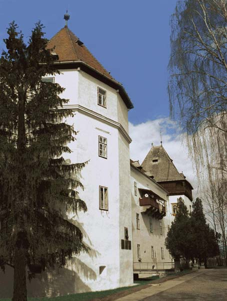 Renaissance castle of the Kemény family in Marosvécs (Brâncoveneşti, Mureş County, Romania)